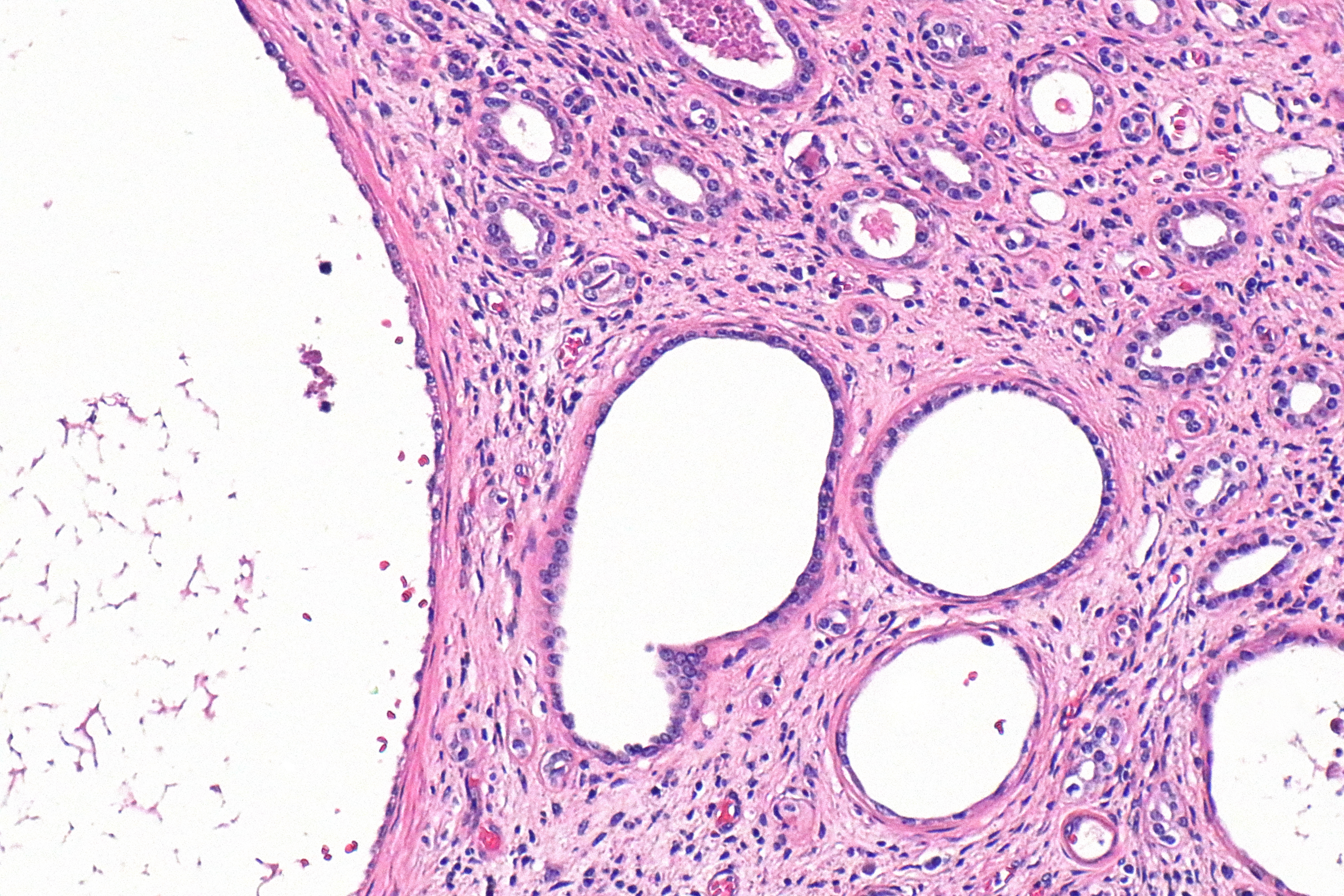 Micrograph showing polycystic kidney disease. H&E stain. Related images PKD - extremely low mag. PKD - very low mag. PKD - low mag. PKD - intermed. mag. PKD - very low mag. PKD - low mag. PKD - intermed. mag. PKD - intermed. mag. PKD - high mag.